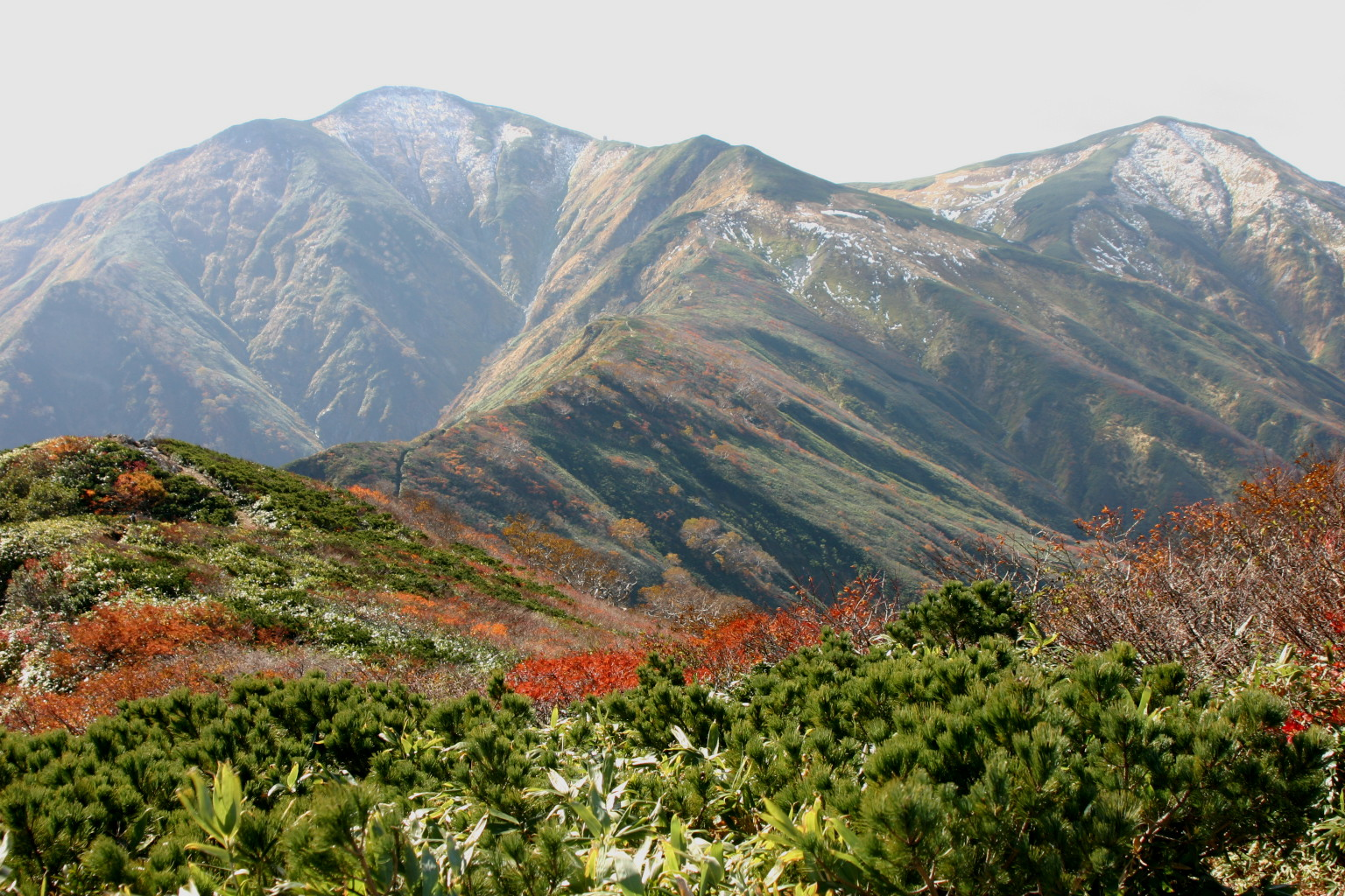 Mount Asahi seen from WSW. Mount Asahi on the left. Mount Naka on the right. In Asahi mountains, Honshu, Japan.